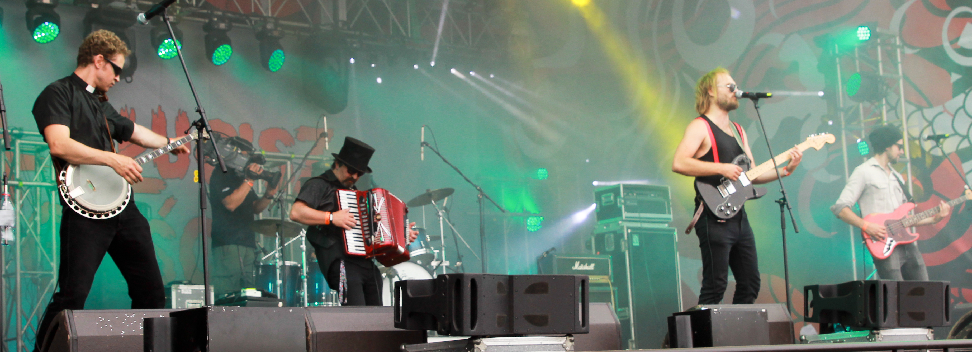 Przystanek Woodstock in 2015.